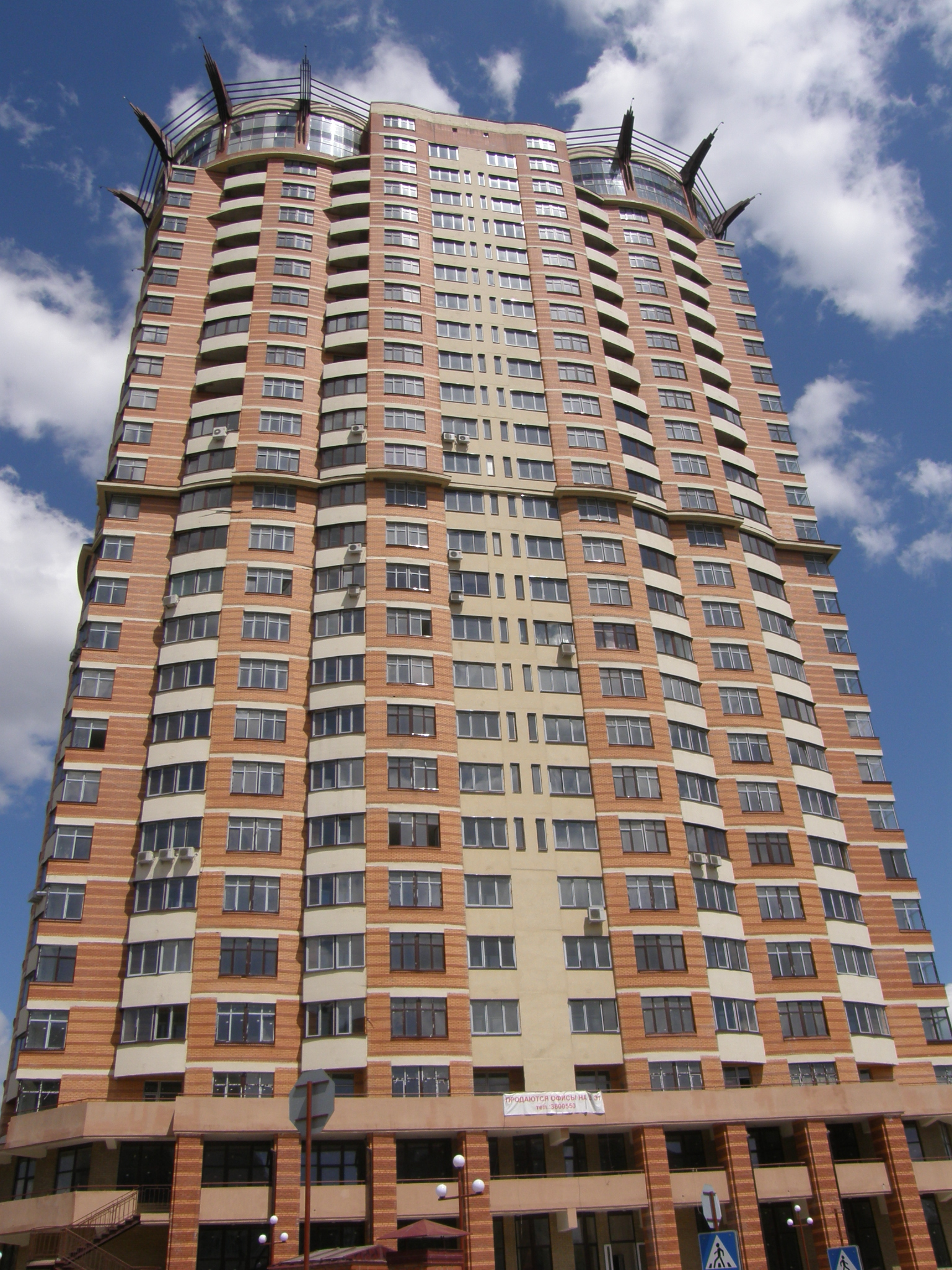 King's Tower in Donetsk